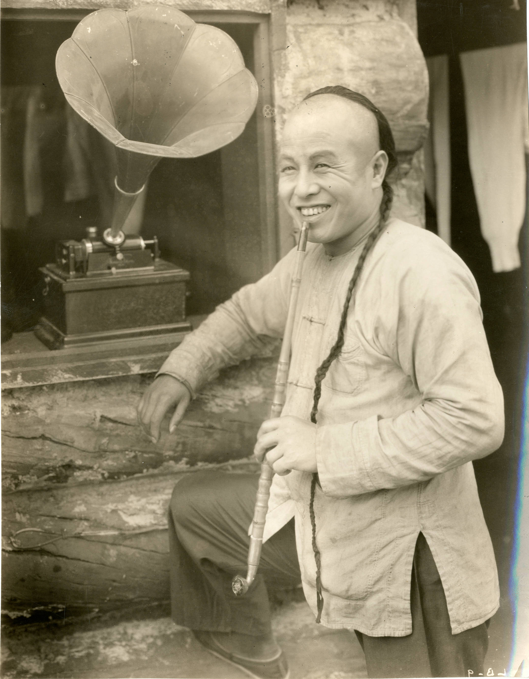 George Kuwa, film actor Subjects: actors